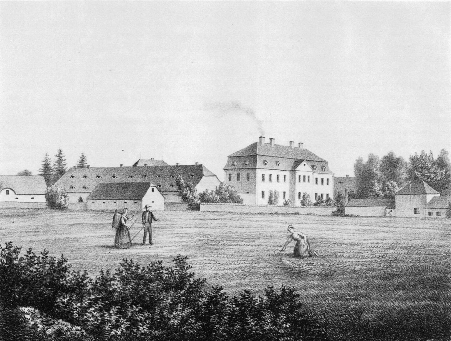 manor Ammelshain in Saxony